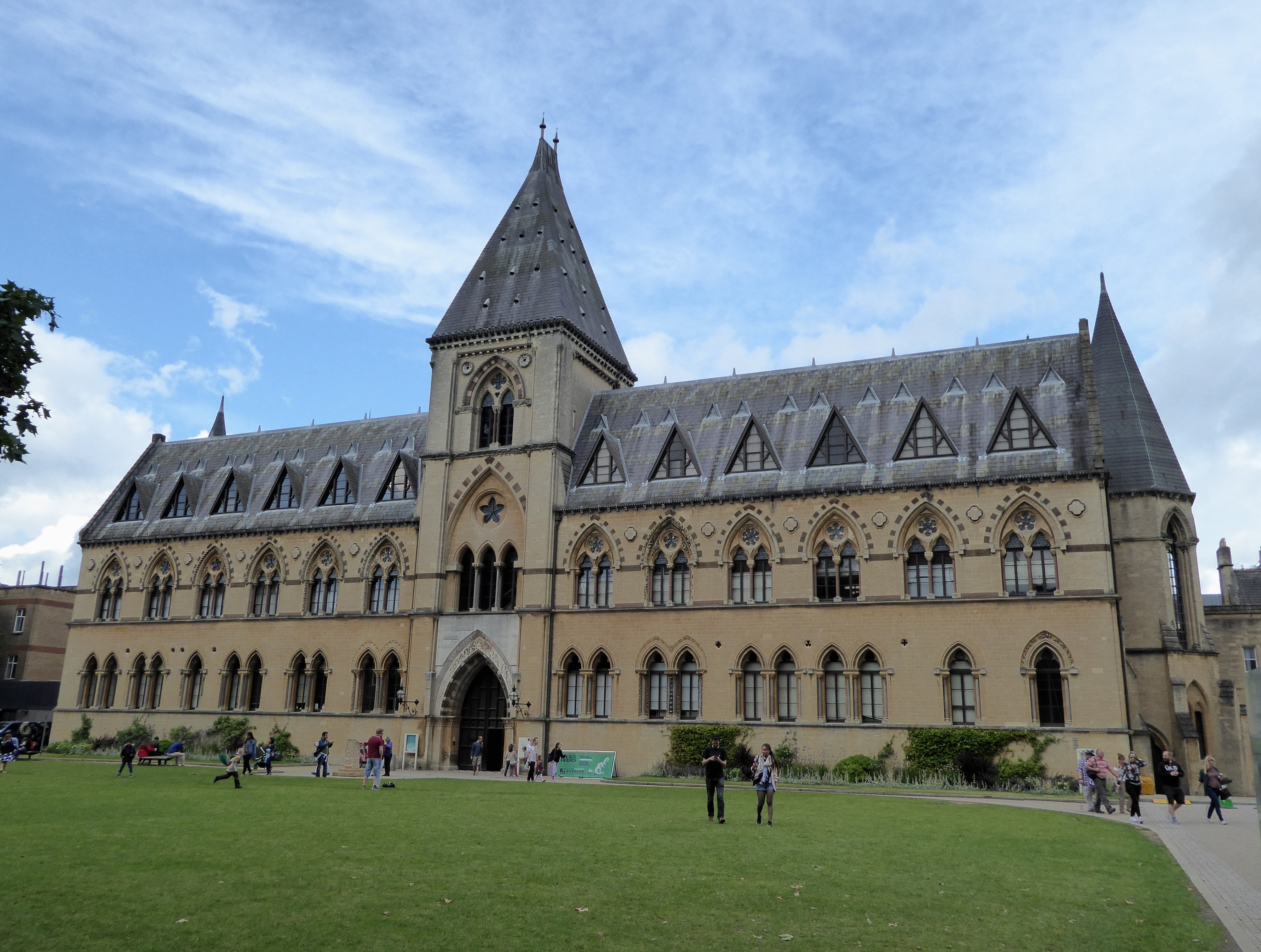 Exterior of the Oxford University Museum of Natural History in Oxford, Oxfordshire.